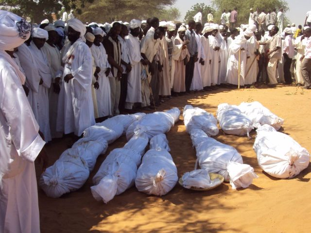 صور ضحايا المجزرة أثناء أداء طقوس صلاة الجنازة الإسلامية